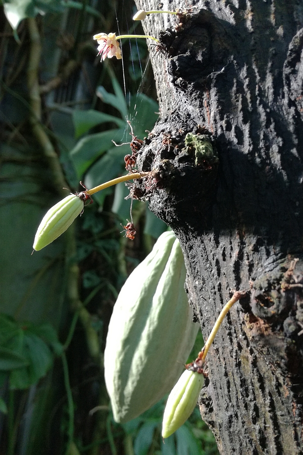 blossom and fruit at a cocoa tree